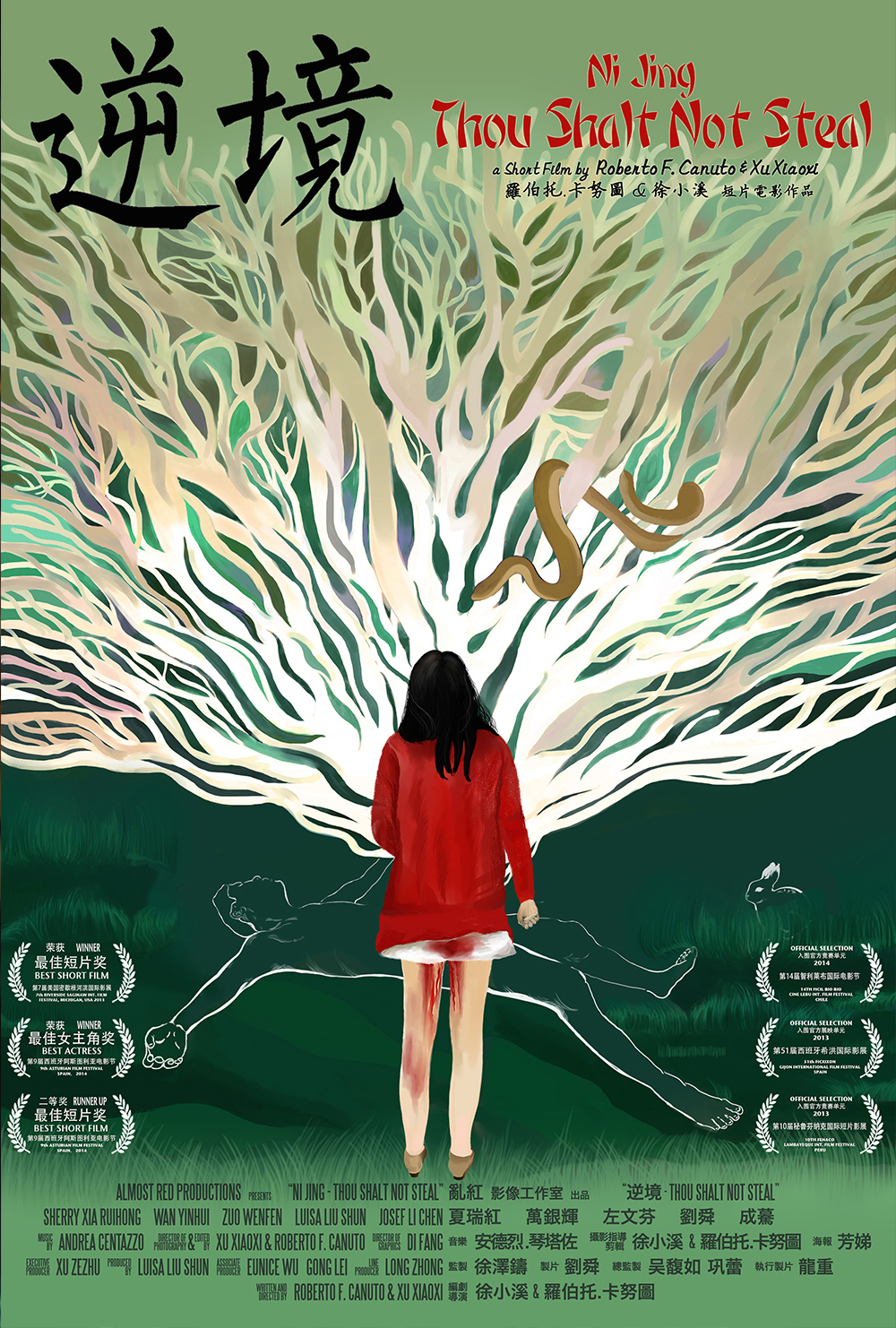 Ni Jing Thou Shalt Not Steal Poster with fest. (dir. Roberto F. Canuto & Xu Xiaoxi)